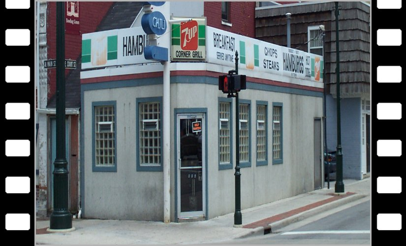 Illustration of anamorphic widescreen lens. With an anamorphic lens, the picture is optically "squeezed" to cover the entire film frame, resulting in a better picture quality. When projecting the film, the projector must use a lens of opposite anamorphic power to "unsqueeze" the image back to its original proportions.